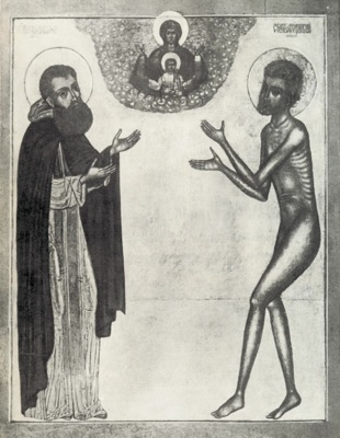 Icon of Прокопий Вятский, rusian saint, icon from 17. century